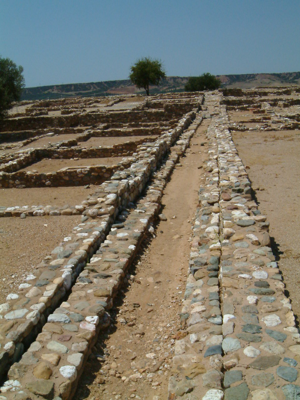 Ancient city of Olynthos, Chalkidiki, Greece (northern hill of ancient town). View on small road separating two housing blocks.